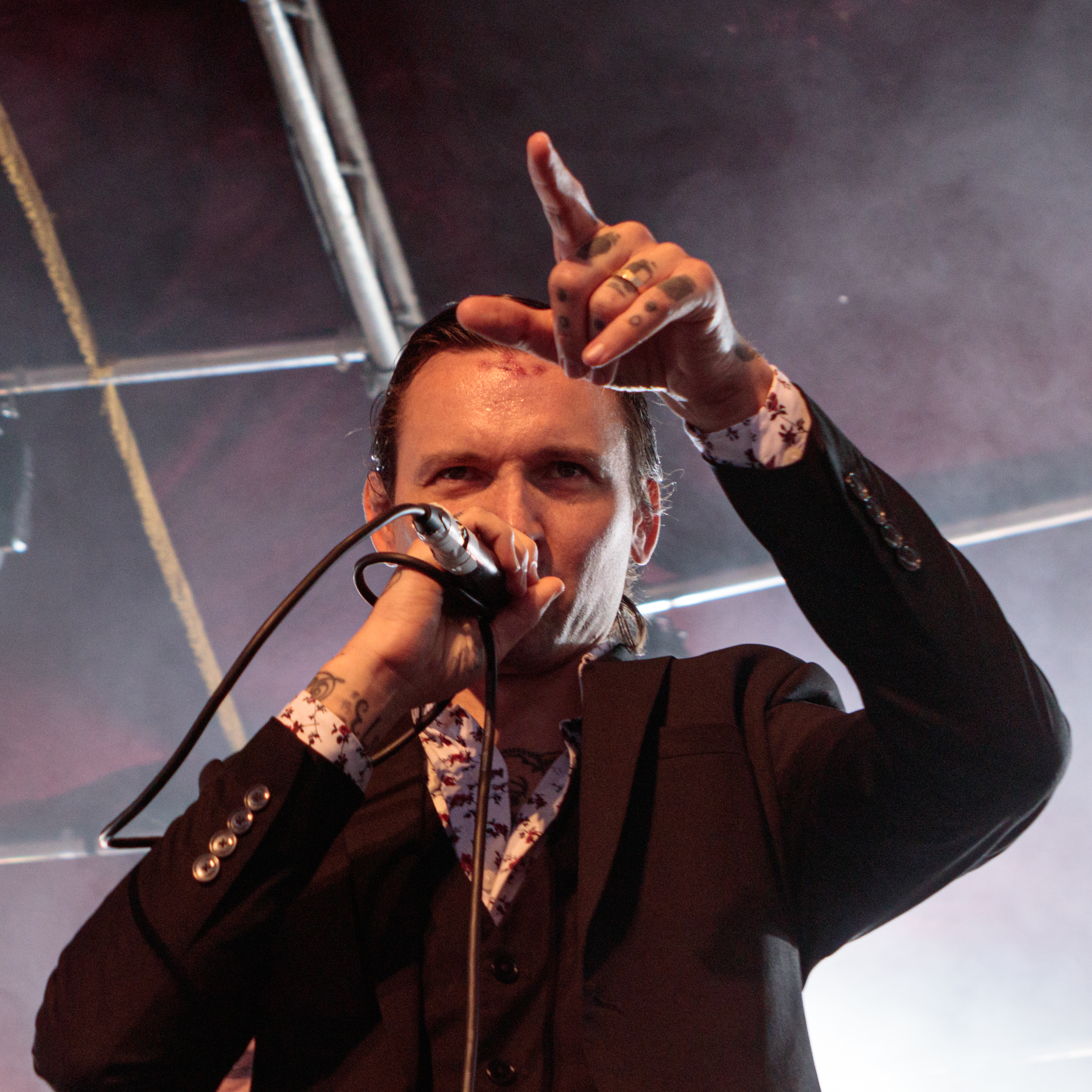 Daughters in the Spiegeltent at Haldern Pop Festival 2019.